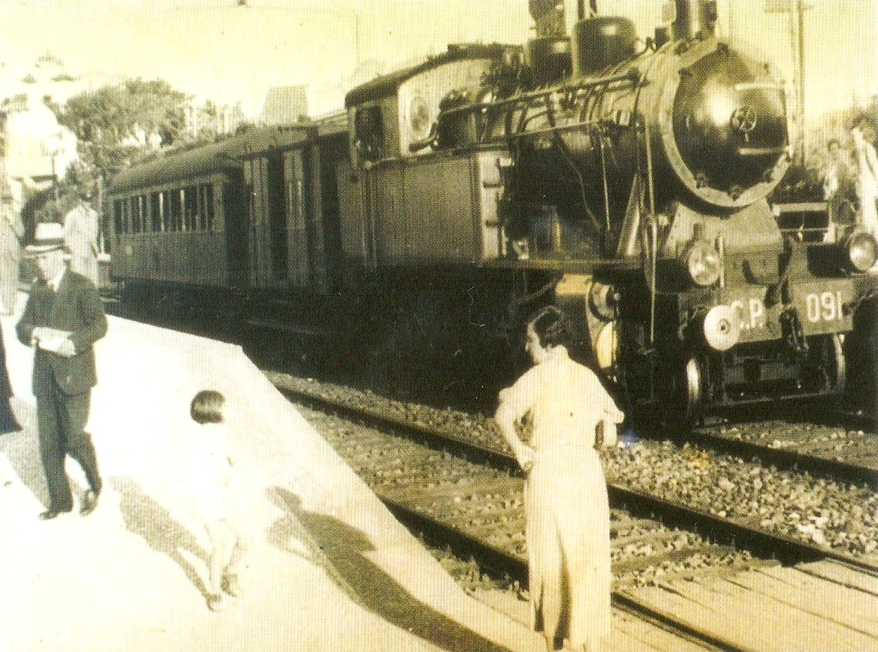 Part of the Sud Express train at the Estoril Railway Station, in Portugal.